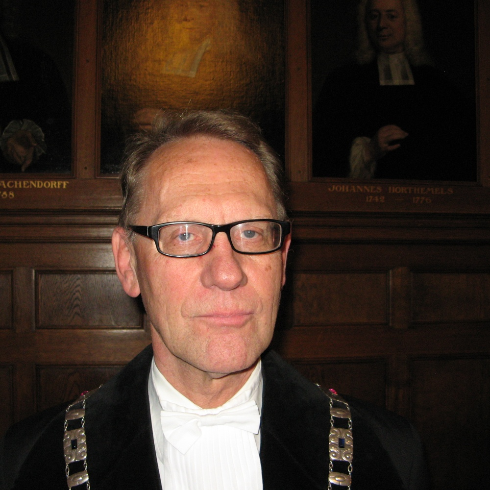 Prof. dr. Willem Koops portret. Foto gemaakt 2 dec 2009 tijdens de receptie na de inaugurale rede van Edith de Leeuw in de Senaatszaal van het Academiegebouw, Universiteit Utrecht.